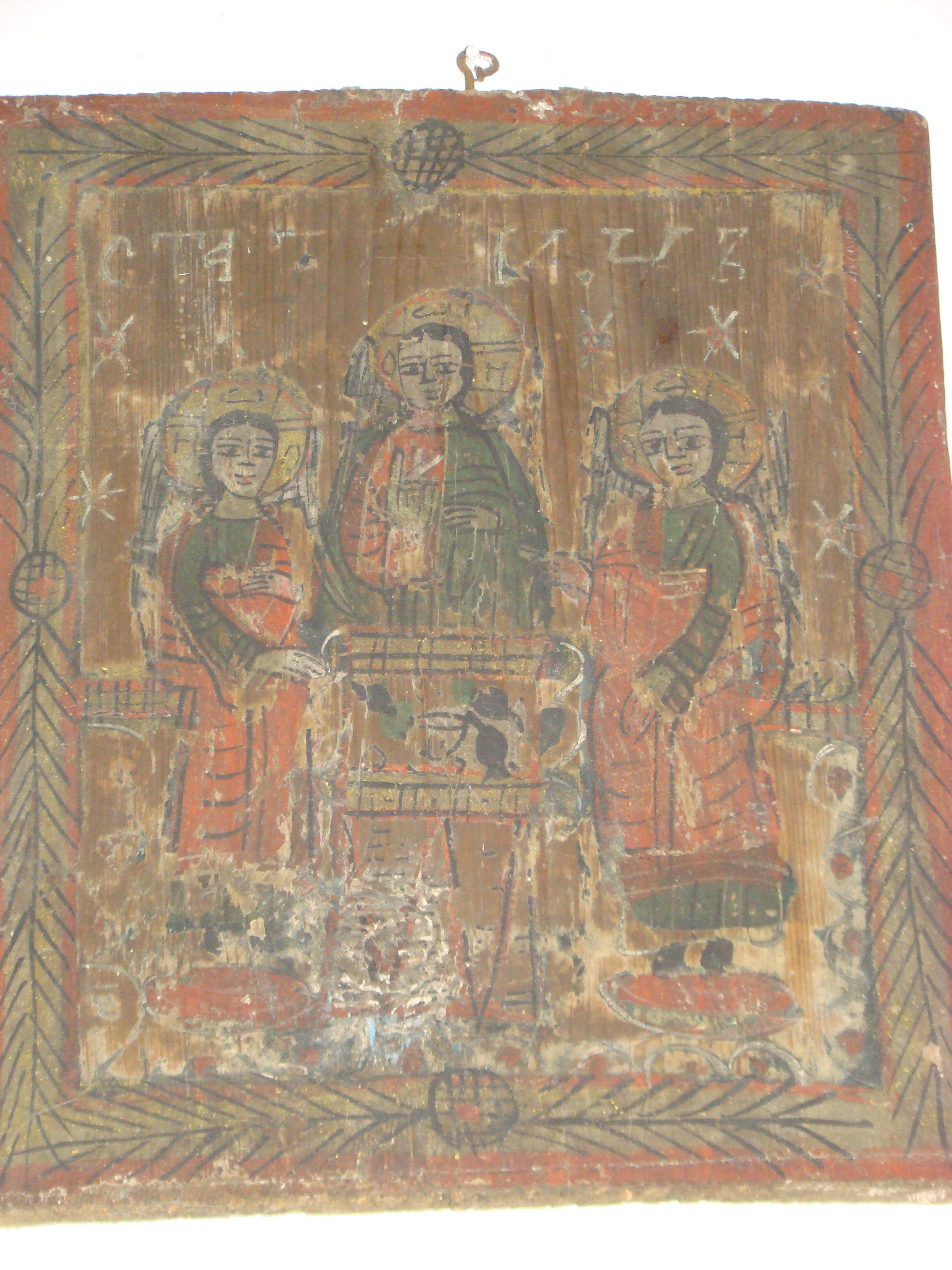 The old orthodox church „Dormition of the Theotokos” in Săsăuș, Sibiu county, Romania